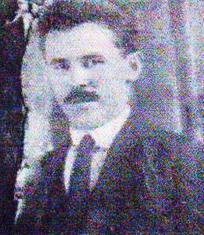 This photo is that of Josif Filo, an Albanian patriot.